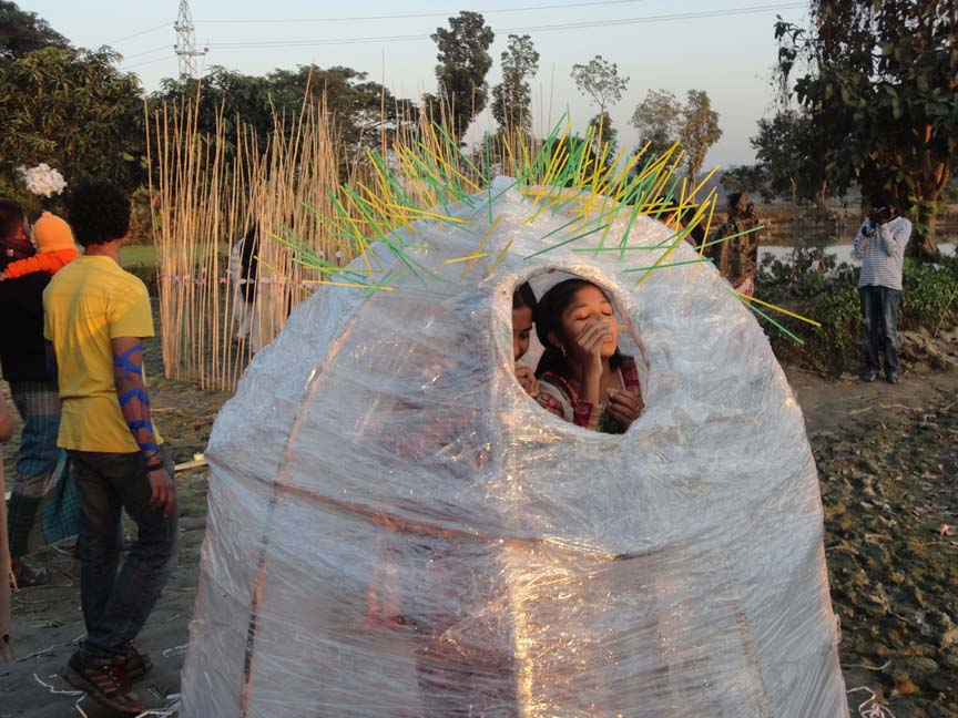 Annual Crack International Art Camp in Rahimpur, Kushtia, Bangladesh, 2012.